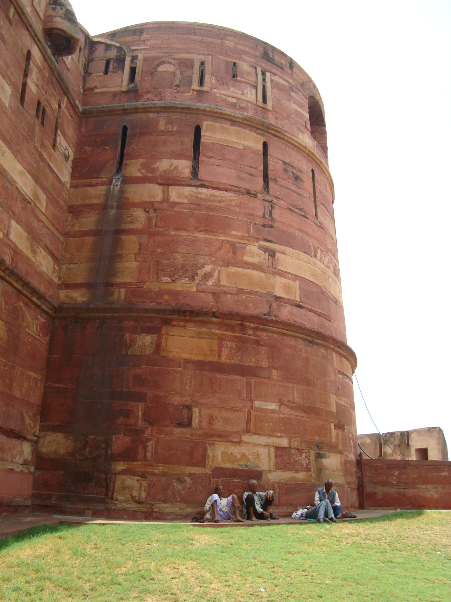 A rampart of Agra Fort